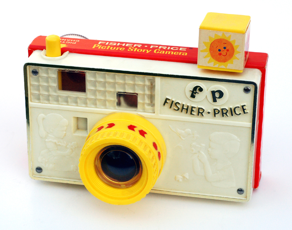 The Fisher-Price Picture Story Camera (made in 1967) is not a functioning camera. It's made of paper-covered wood and plastic. Inside is a little disc with eight scenes. When you press the shutter button, the scene changes and the flash cube turns. The flash cube has a picture of the sun on one side, then a brown leaf, a snowflake, and a flower, representing the four seasons. There's also a transparent wheel at the back (seen behind the shutter) with colors in it. You look through the second viewfinder and turn the wheel, and you can see the world through the changing colors. The lens turns but has no actual function. It also has a red & yellow wrist strap, though it's not visible in this photo.